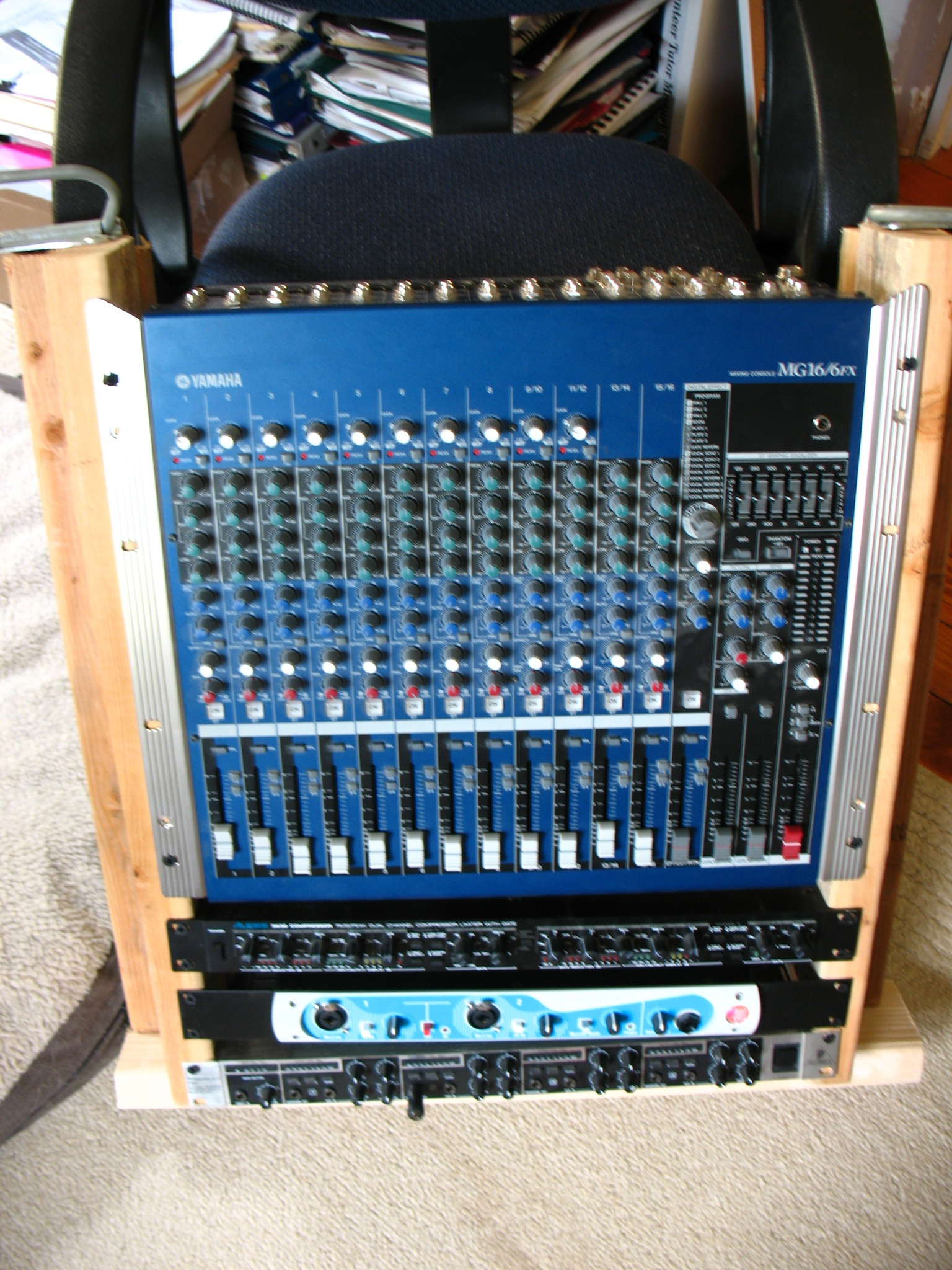 I was in need of a moveable rack to mount some of my gear. So I scrounged around and was able to make this like doozie out of 100% reused material. I even reused the screws and the handles. Nate Houge would be proud. YAMAHA MG16/6FX mixing console Alesis 3630 Compressor digidesign digi 001 powered by Pro Tools LE Behringer POWERPLAY PRO-XL HA4700 4ch Headphones Amps